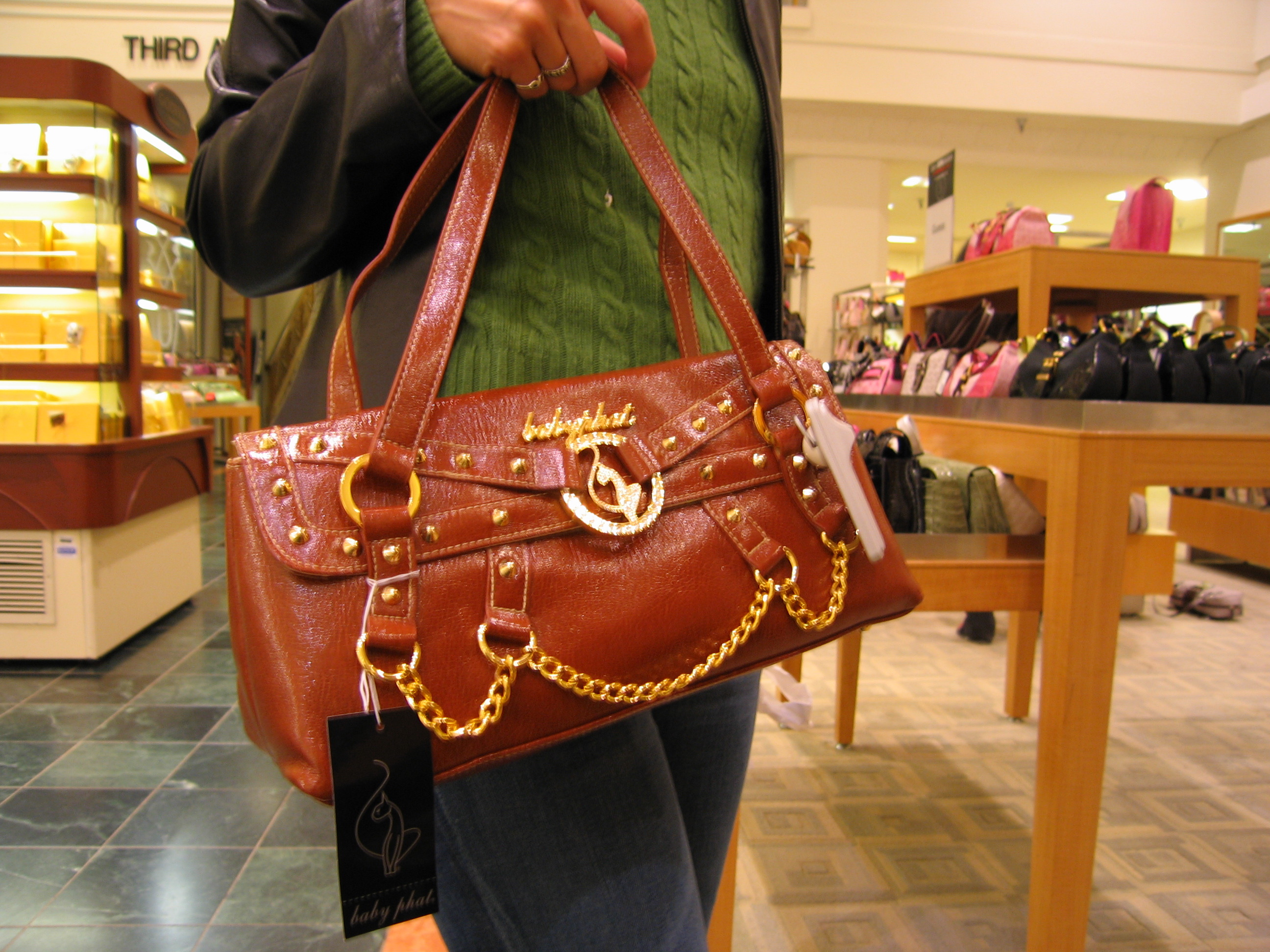 Purse Shopping at Bon Macys